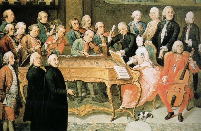 The prince-bishop of Liège, John Theodore of Bavaria, playing the cello. John Theodore was also prince-bishop of Freising and of Regensburg. Detail from Paul-Joseph Delcloche's Concert à la cour du prince-évêque de Liège, circa 1755.